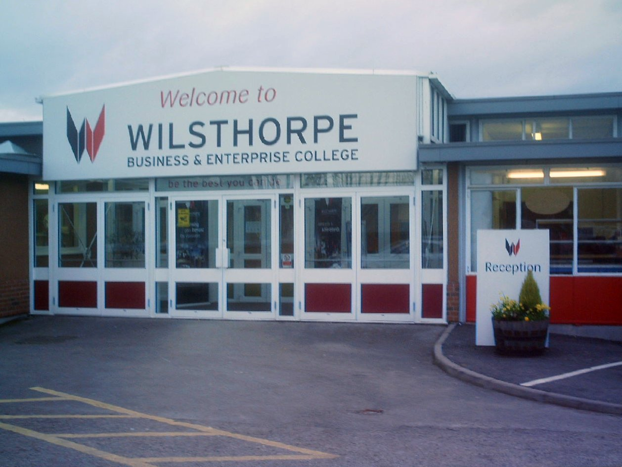 Entrance to Wilsthorpe Business and Enterprise College - a secondary school in Derbyshire but in Long Eaton a residential suburb of Nottingham